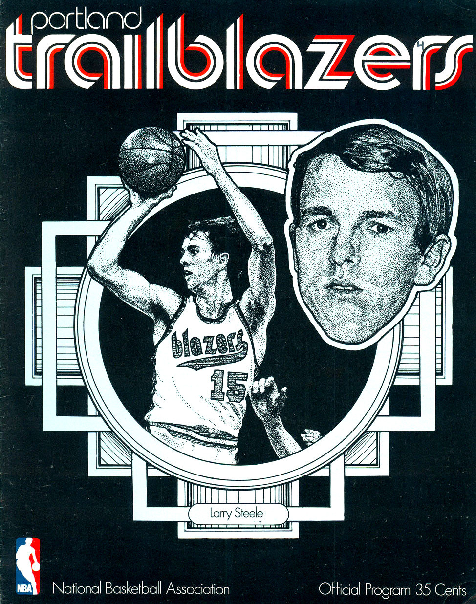 A program for the Portland Trail Blazers featuring Larry Steele